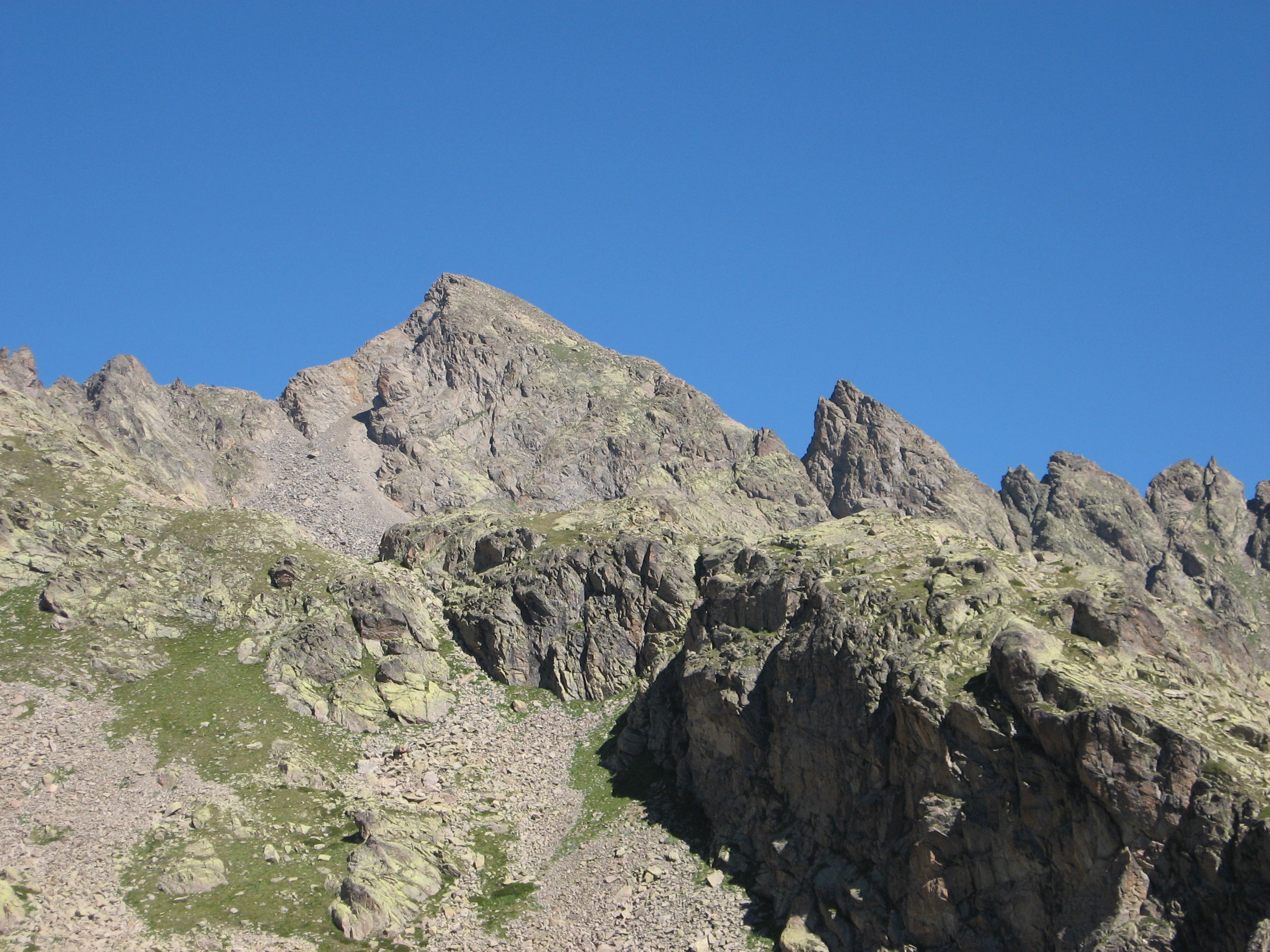 Mt. Corborant seen from Lausfer lakes